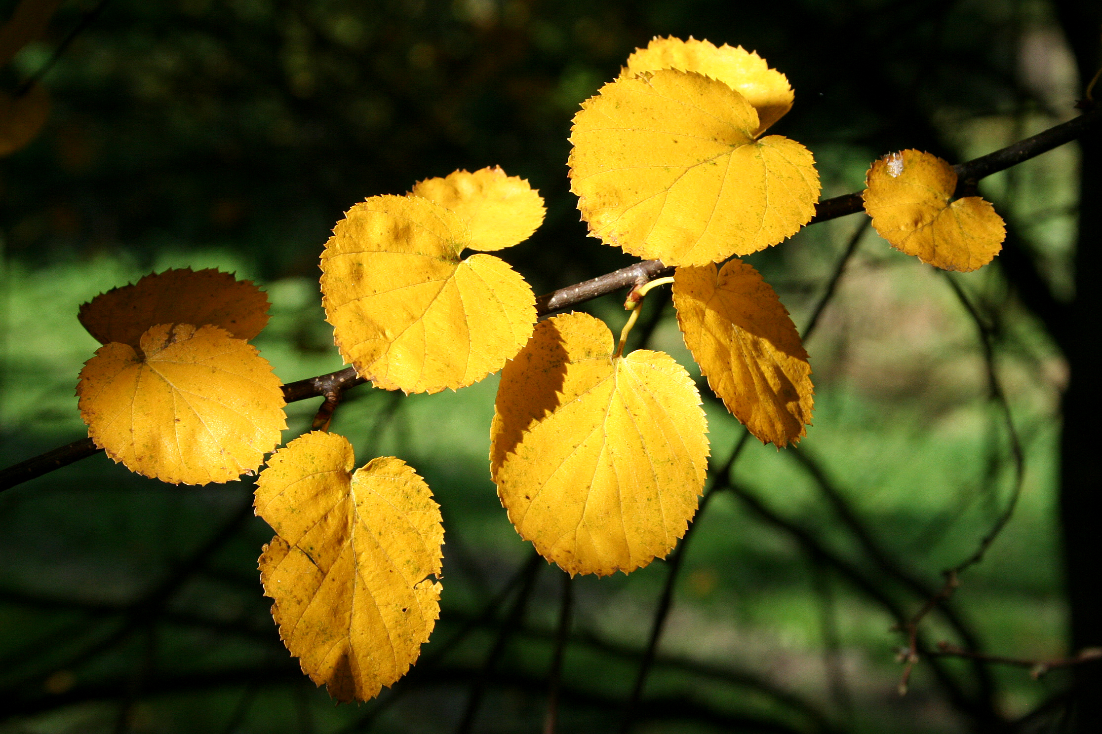 Virginia Roundleaf Birch - (Betula uber) leaves in the autumn Planting date : 1996 Precise location : Arboretum Robert Lenoir (48B - 2618) - Rendeux (Belgium). Walon: Fouyes dol Bèyole di Virdjinîye a rondès fouyes - (Betula uber) è l’arière saîson Annéye do plantis' : 1996 Arboretum Robert Lenoir (48B - 2618) - Rindeu (Bèljike).